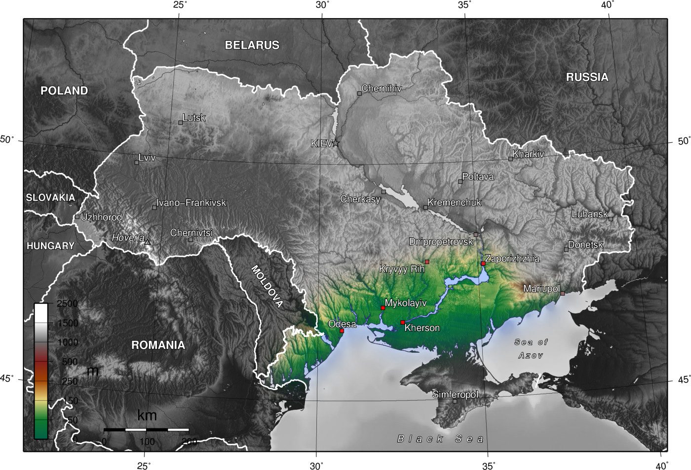 Ukraine BlackSea Depression